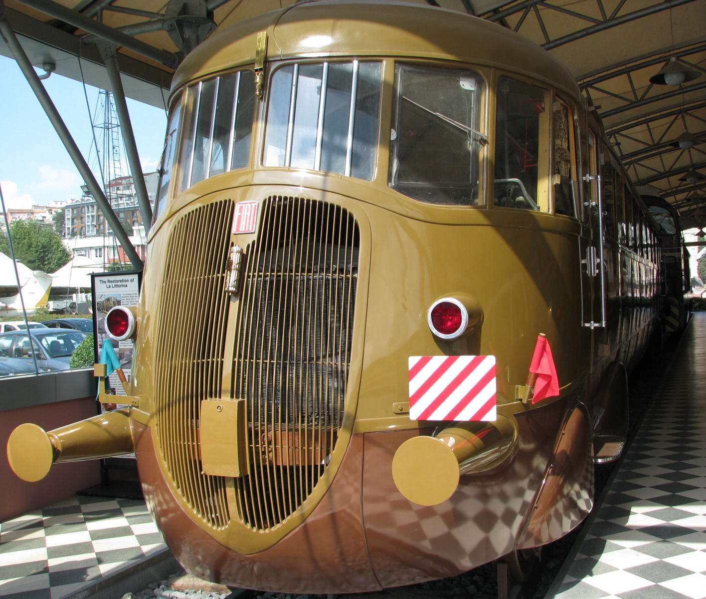 Rail Car “La Littorina” at Rahmi M. Koç Museum.